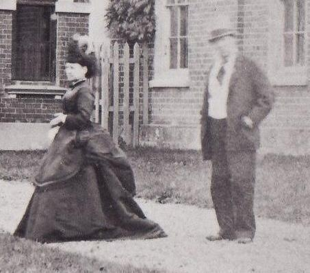 Photograph of Mr & Mrs John Knox Rickards Phillips outside Whitson Court, Whitson, Newport, Monmouthsire c.1890